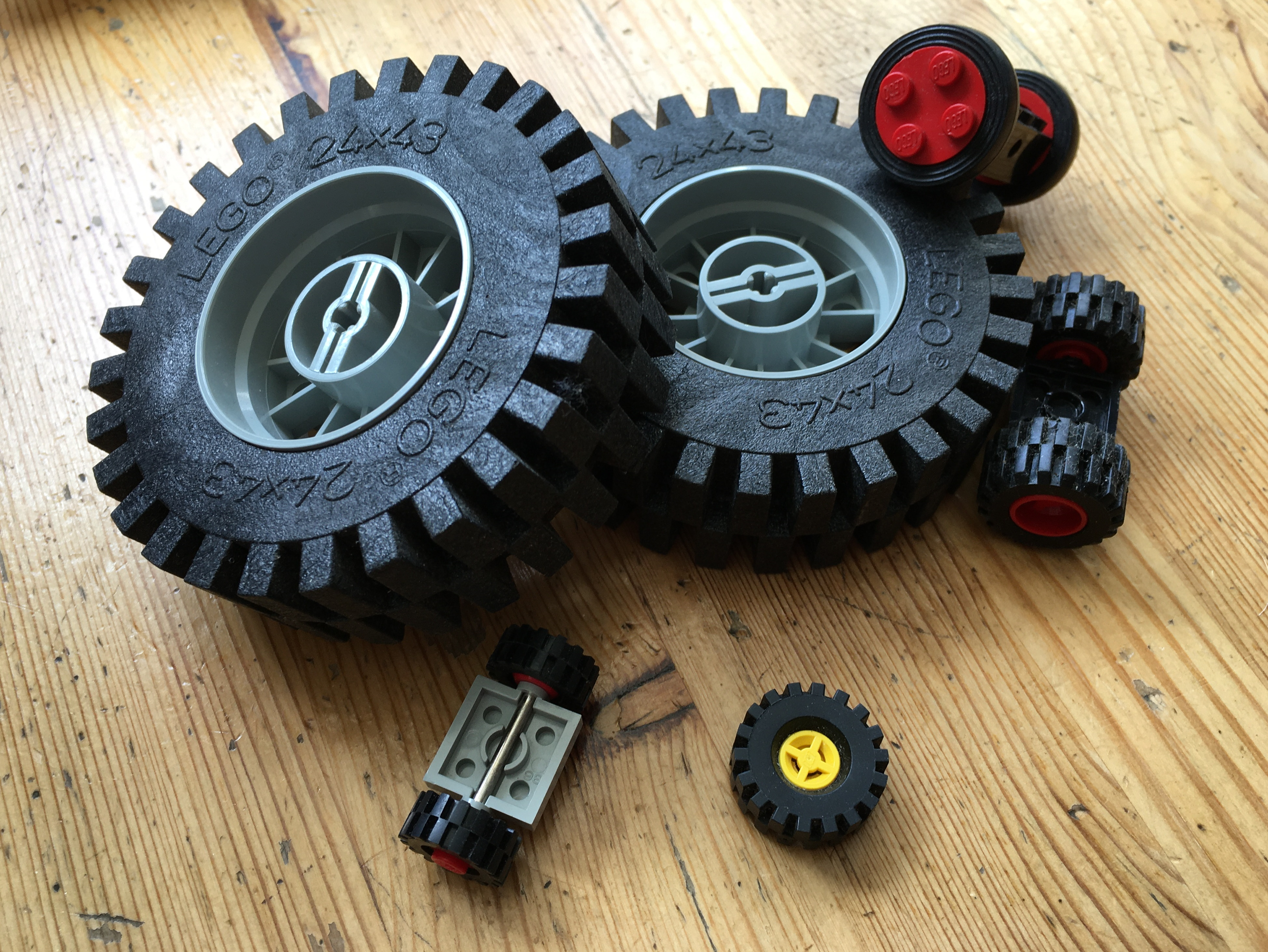 Lego wheels in different sizes